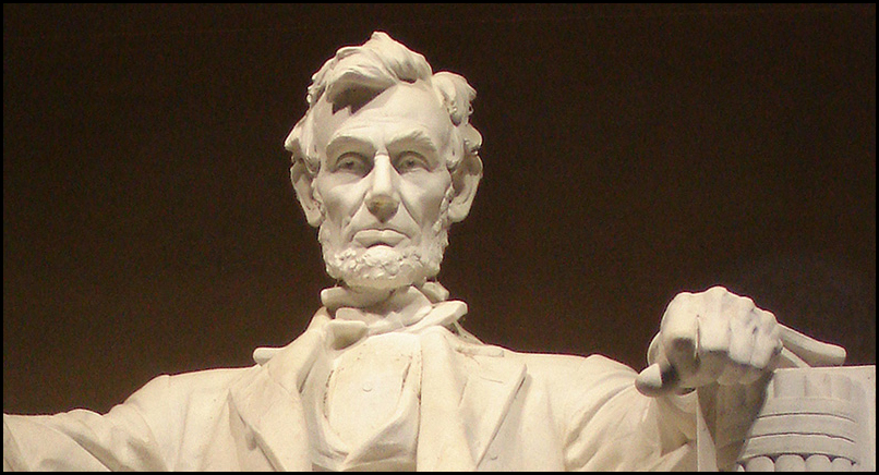 Washington - Lincoln statue